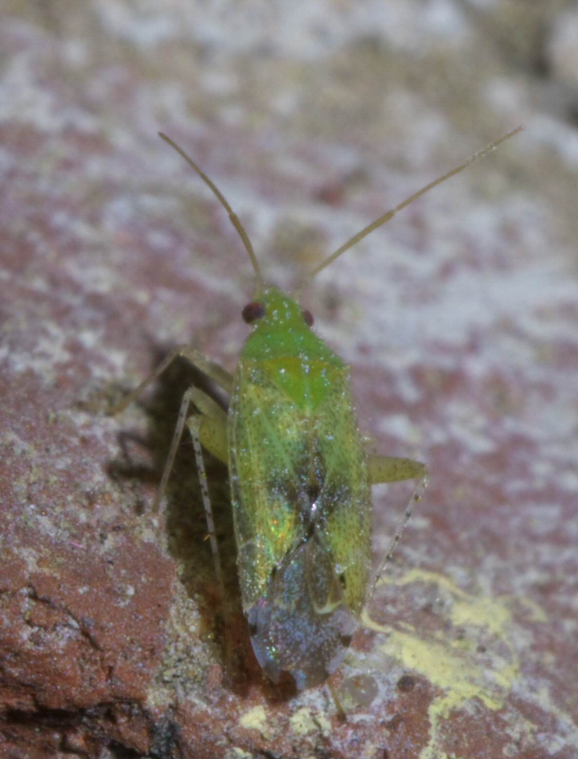 Keltonia tuckeri, Family: Plant Bugs, ID Confidence: 98